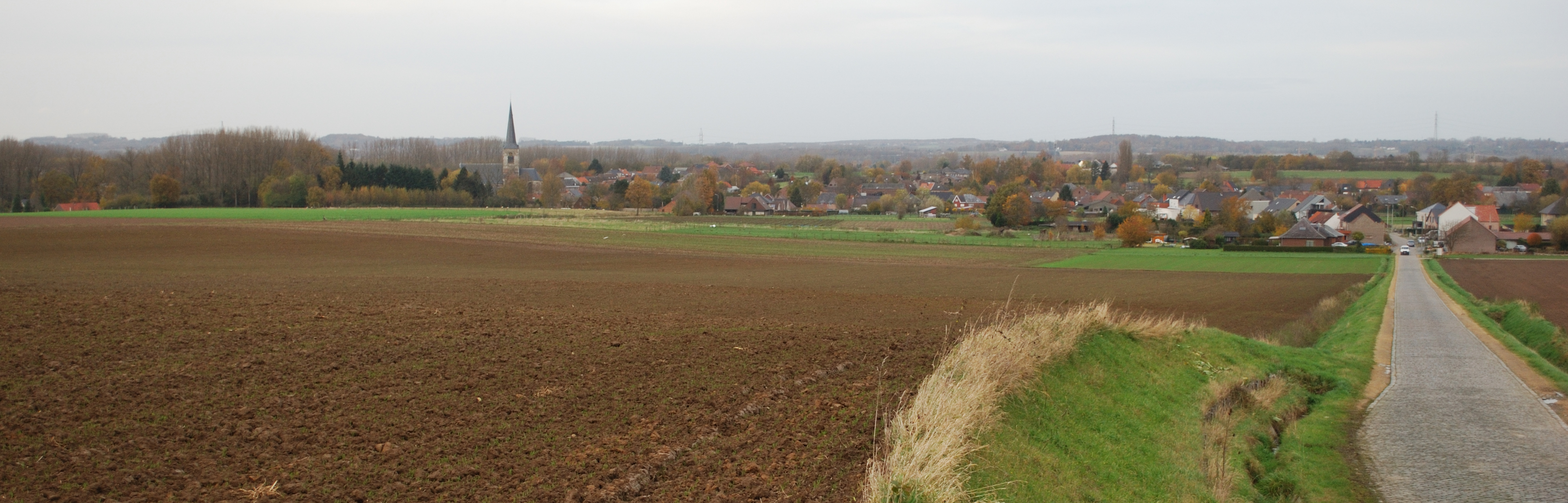 South view of the village of Wambeek, commune of Ternat, Belgium. The cobblestone road near the right edge is the Doelstraat. Nikon D60 f=30mm f/4.8 1/125s at ISO 200. Manual lighting and colour correction using Nikon ViewNX 1.0.3; framing in Adobe Photoshop 4.0